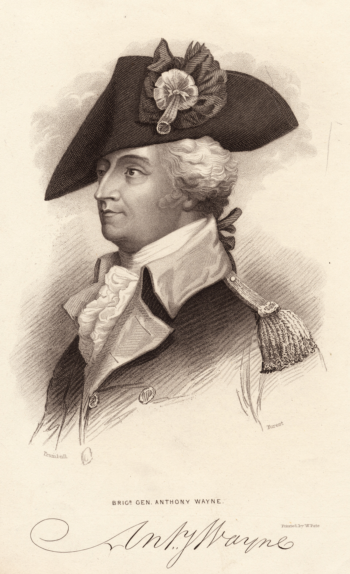 Anthony Wayne (1745–1796), American general